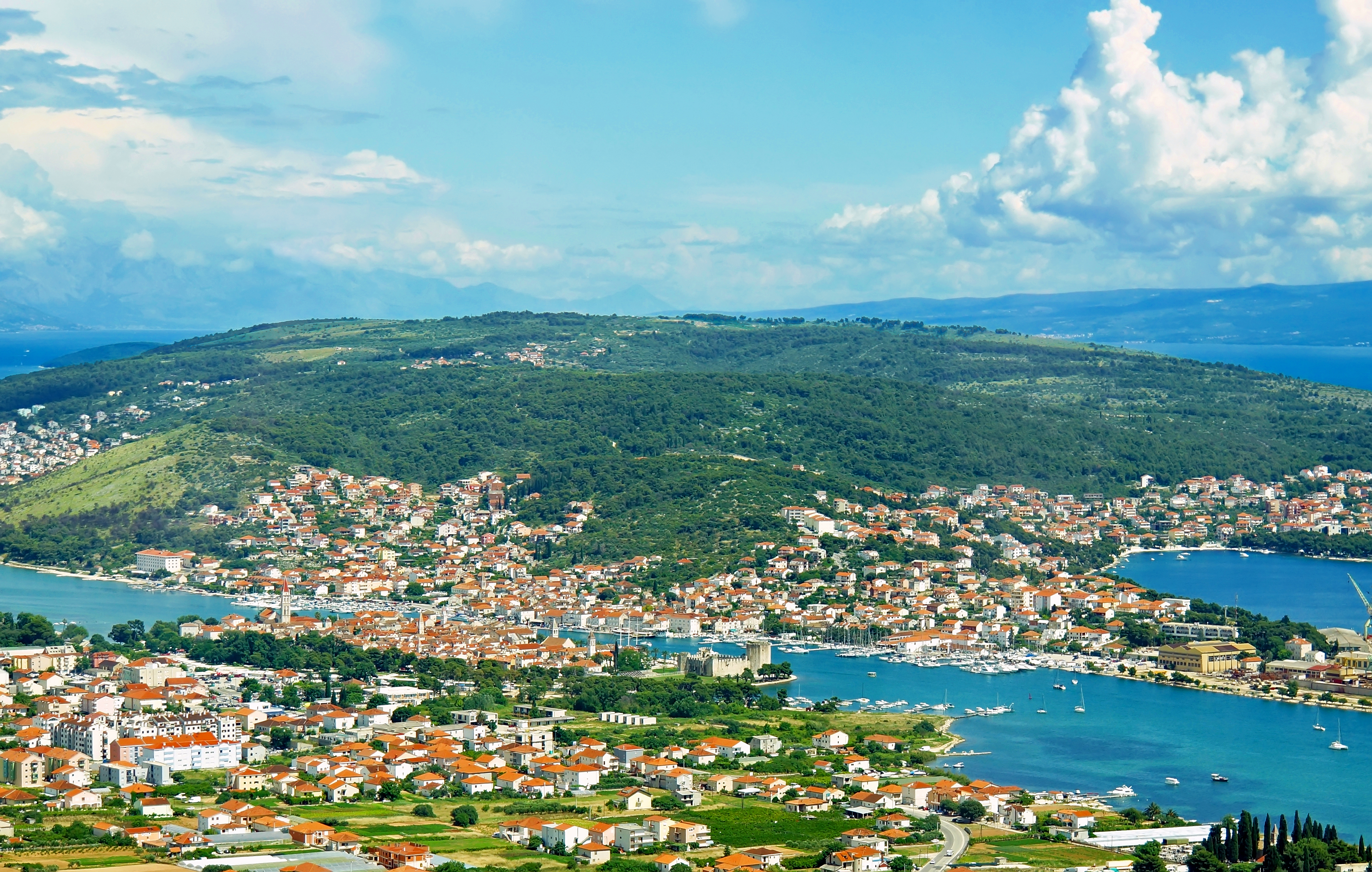 The historic city of Trogir is situated on a small island between the Croatian mainland and the island of Čiovo.